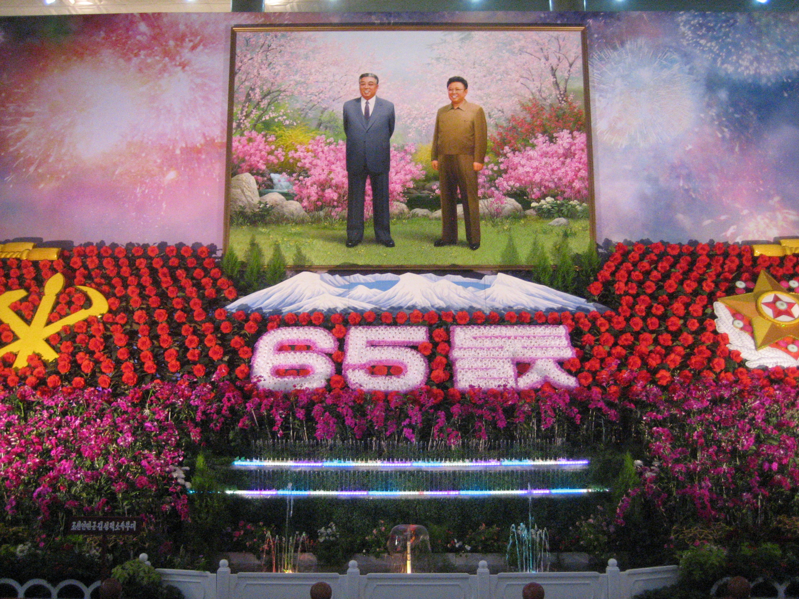 Kimilsungia and Kimjongilia. Flower arrangement says 65돐, or "65th Anniversary"